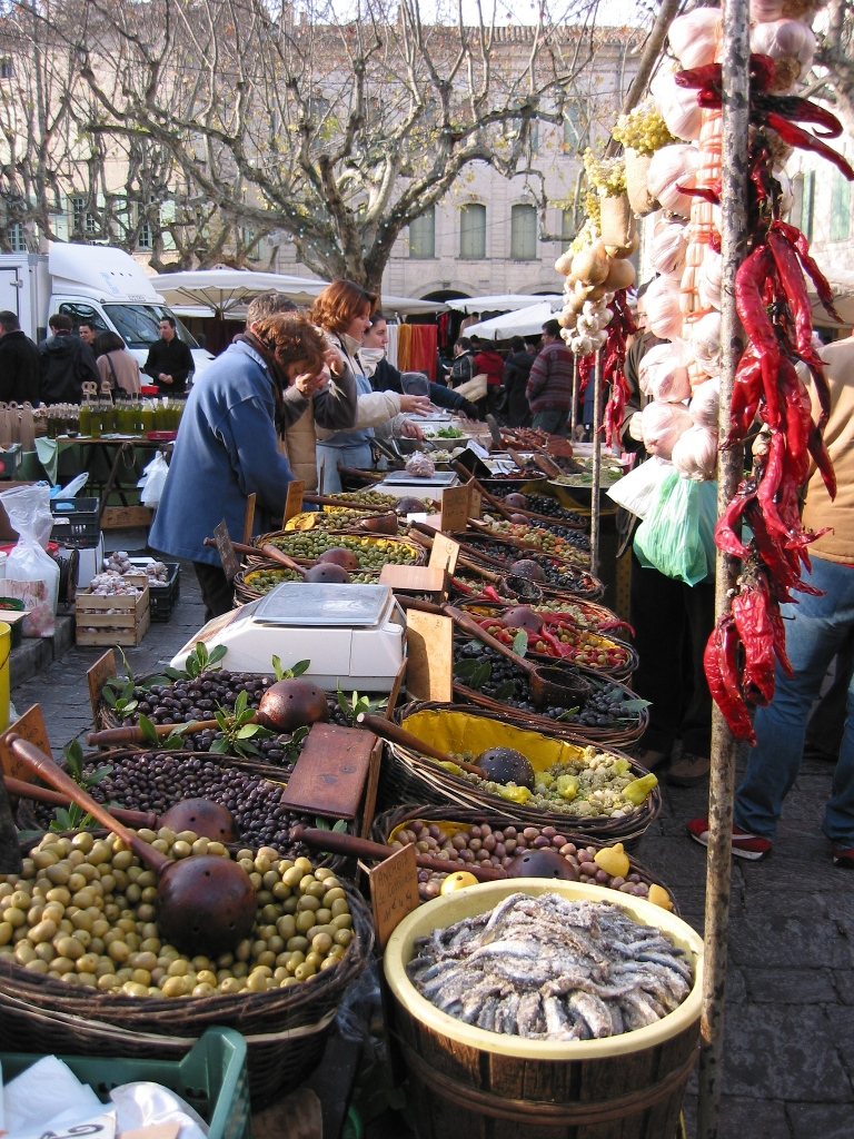 Uzes market, December 2003 Photo taken by contributor